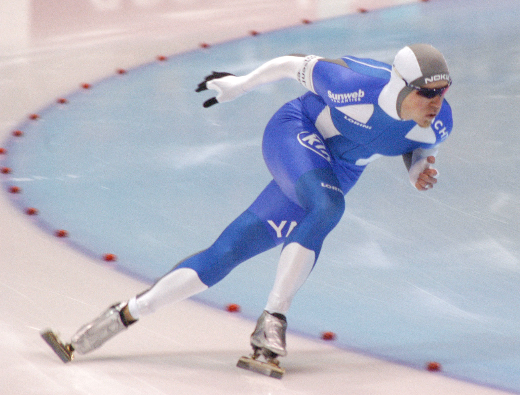 Mika Poutala (FIN) at a world cup speedskating in Heerenveen, the Netherlands.